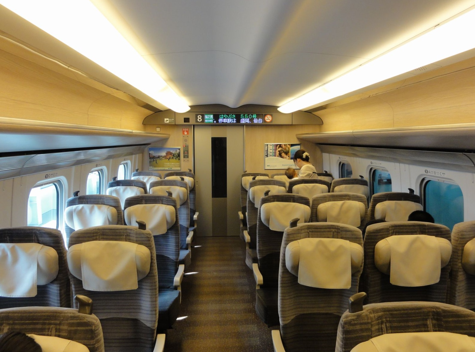 Interior of JR East E5 series shinkansen car E526-402 (standard class, car 8)